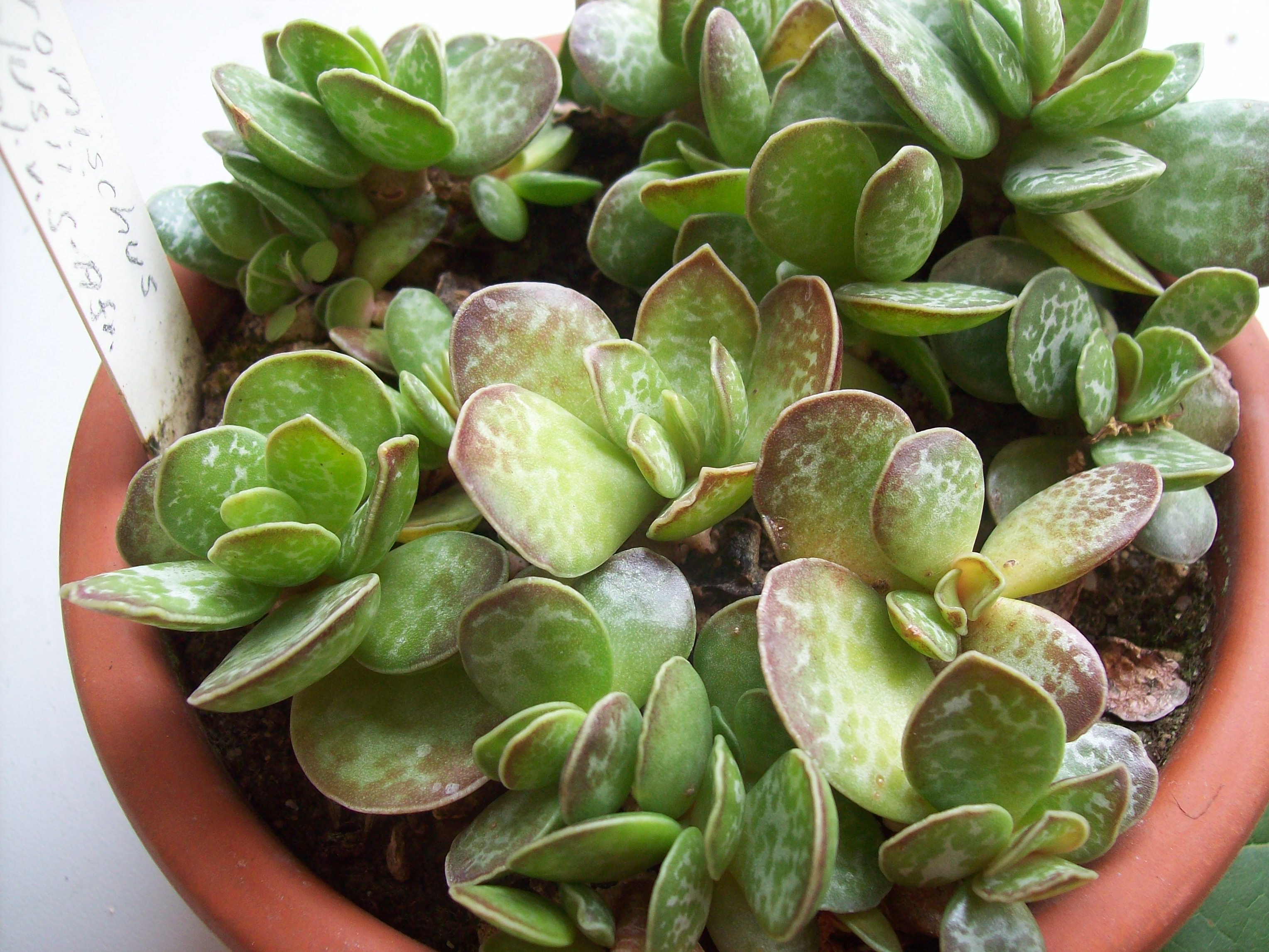 Adromischus caryophyllaceus in a plant pot